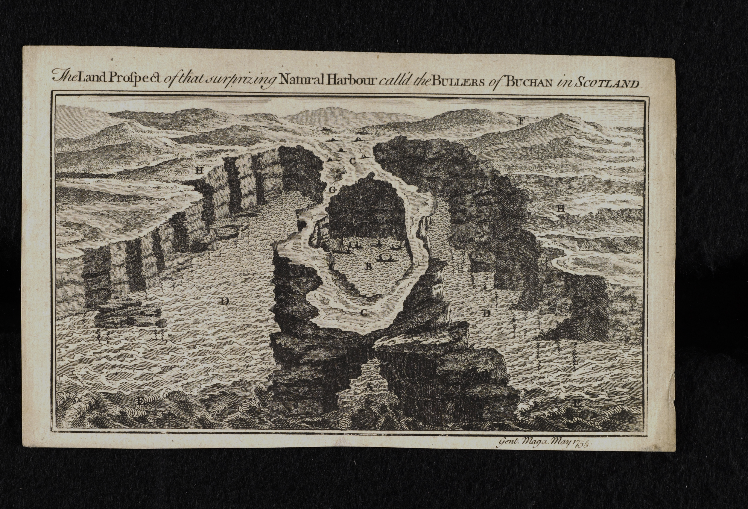 Bullers of Buchan. Gent. Maga. May 1755